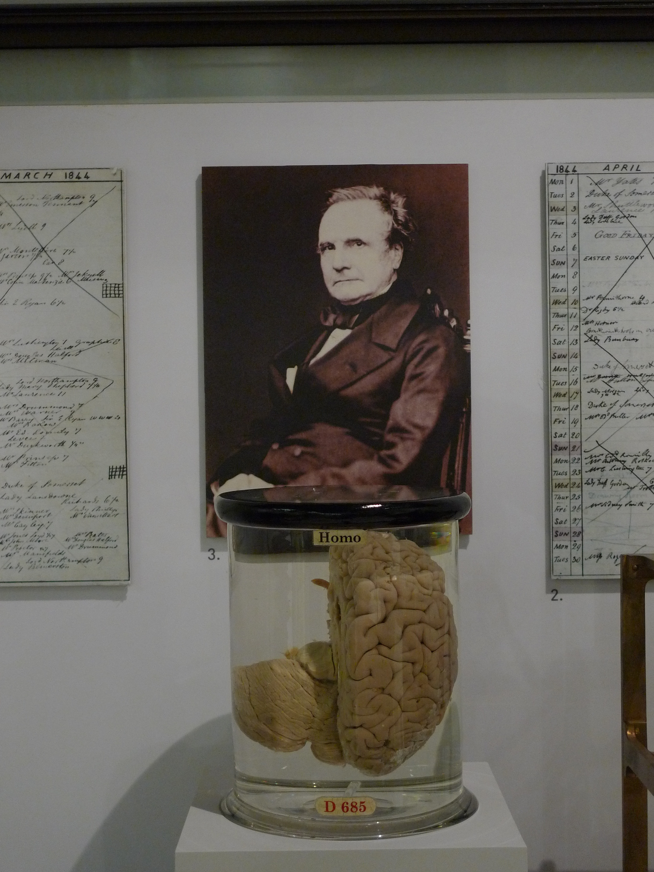 From the Science Museum in London. Charles Babbage and his brain. Yes, really. This is Charles Babbages brain in a jar with sagittal section. Like many eminent people of his era, they looked at his brain after he died, because they thought it might be important.